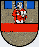 Coat of arms of the Town Cloppenburg